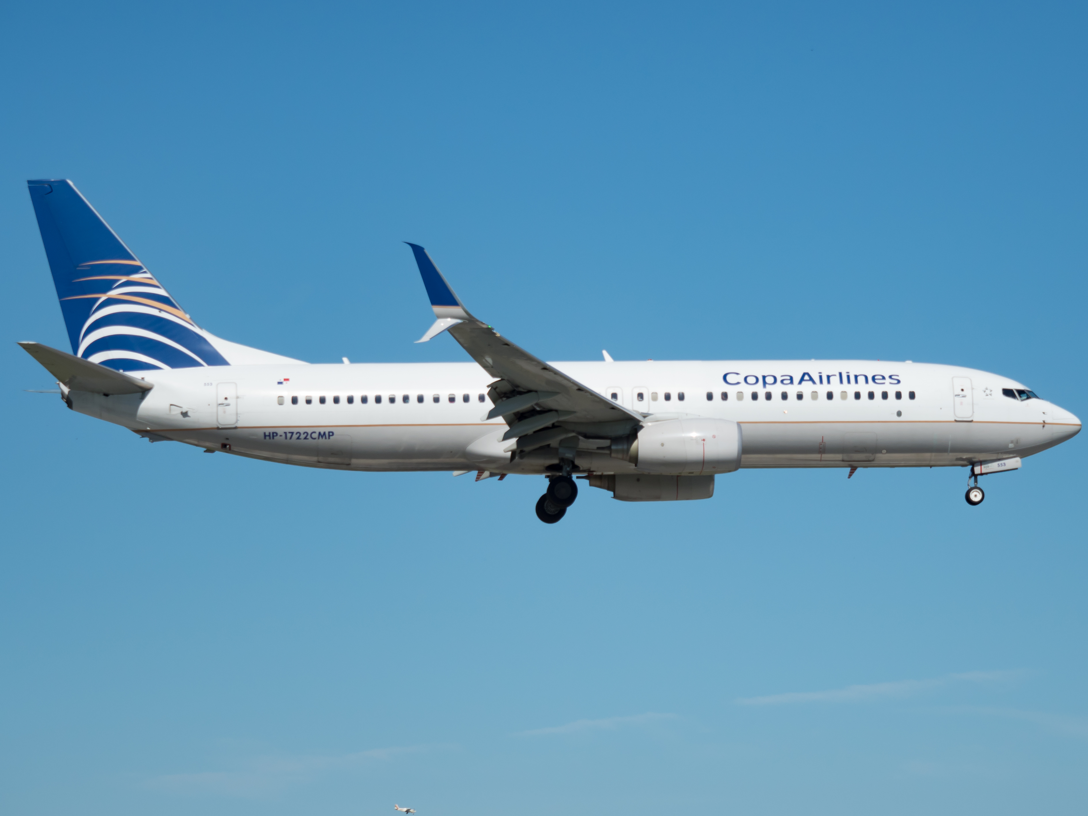 Copa Airlines Boeing 737 at Miami International Airport